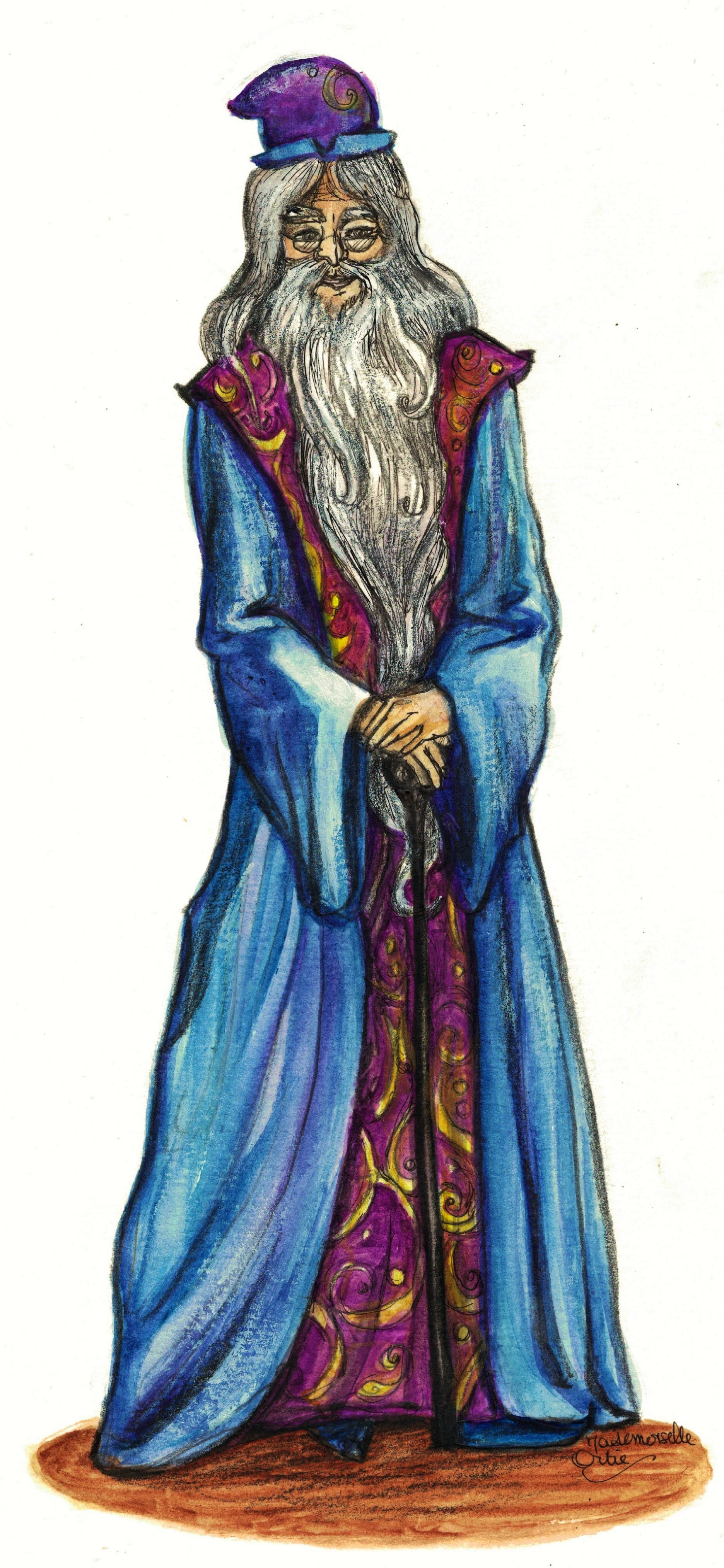 Fan art representing the character Albus Dumbledore from the Harry Potter saga, made with charcoal and watercolours by Mademoiselle Ortie aka Elodie Tihange This drawing is not affected by any copyright infringement. See the discussion that previously decided on its conservation.